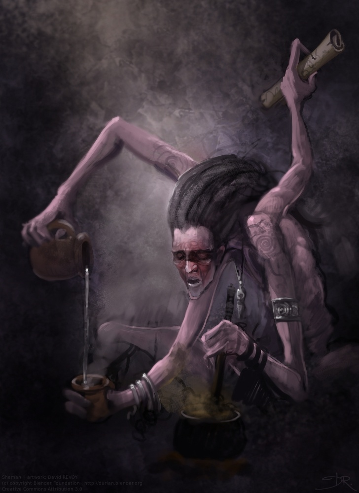 artwork for the Durian-Project of the Blender Foundation